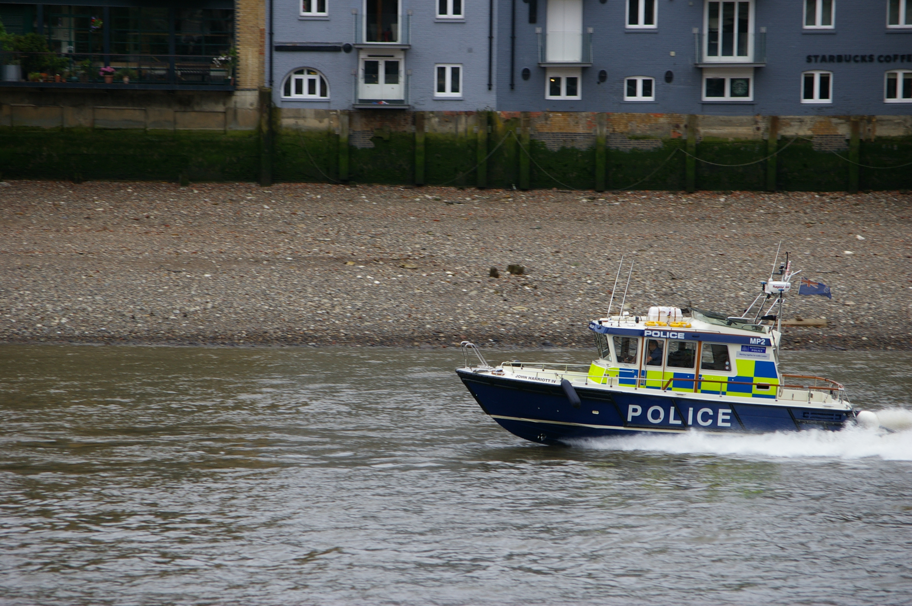 A police boat speeding towards an incident on London Bridge. The boat was going eastwards down the Thames, and in the photograph had just emerged from under Cannon Street railway bridge and was approaching London Bridge. Photographed from Hanseatic Walk.